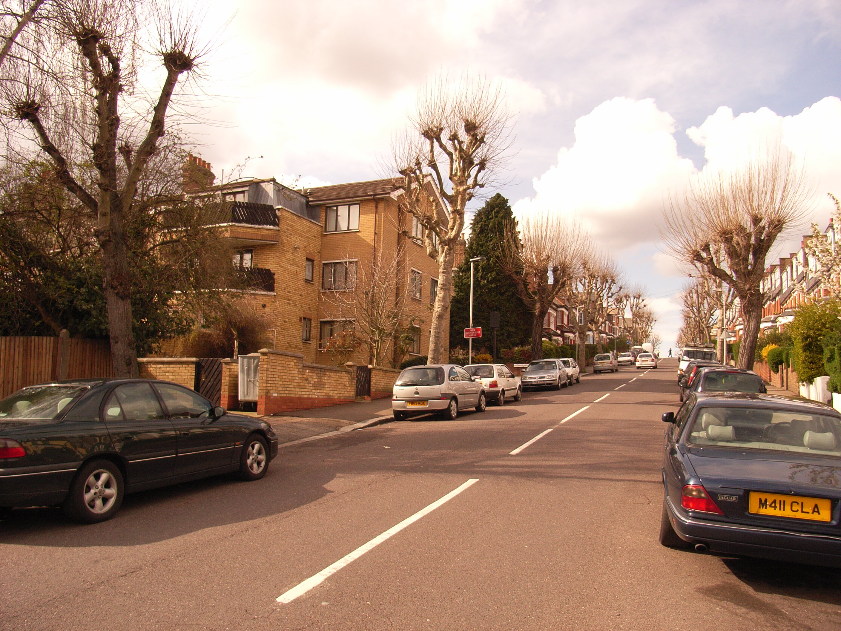 Site of the original Stroud Green High School, junction of Oakfield Road and Addington Road, Stroud Green, London, N4.